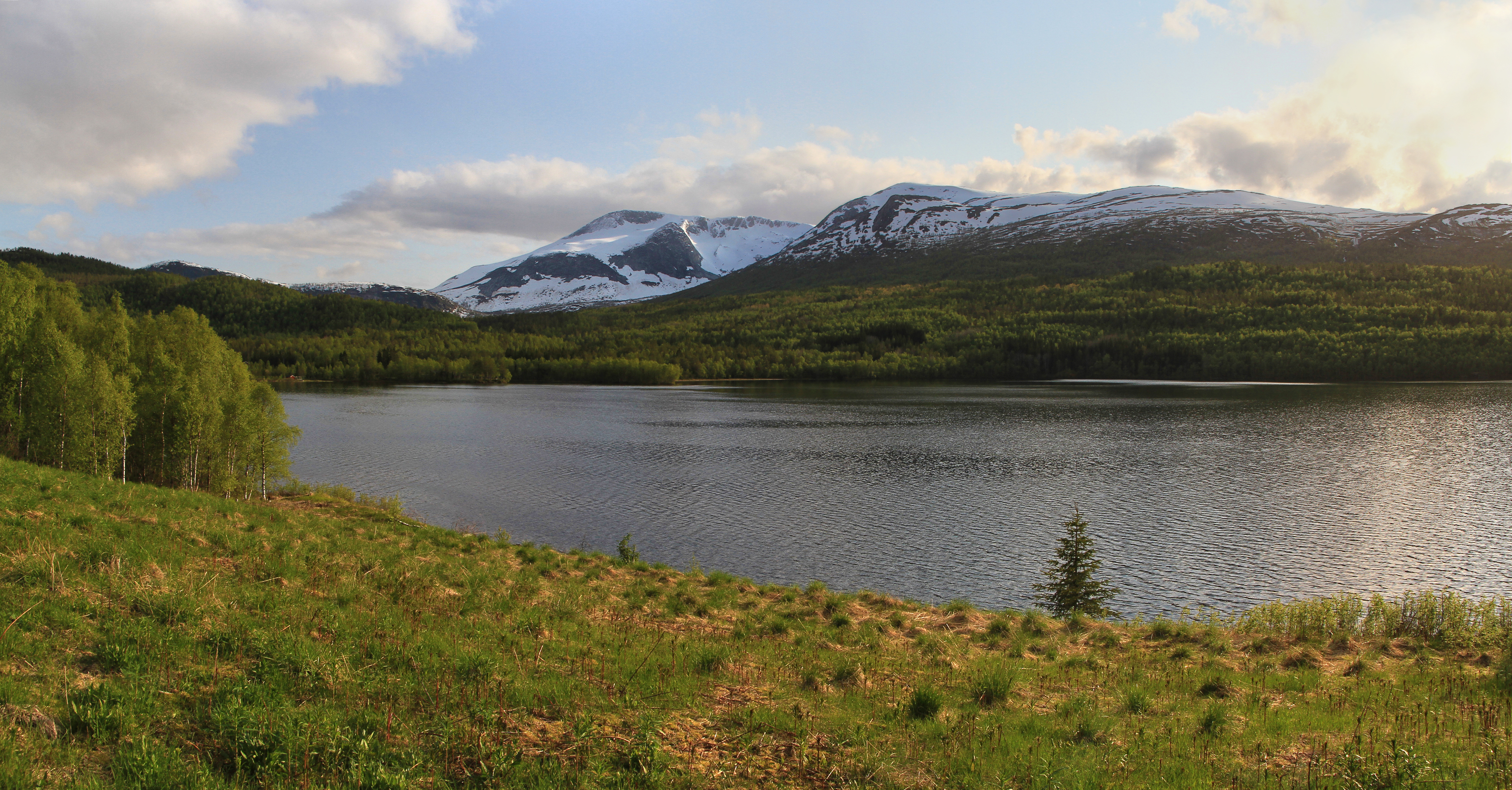 Kråkmovatnet as seen from the east coast towards southwest in evening in 2011 June.